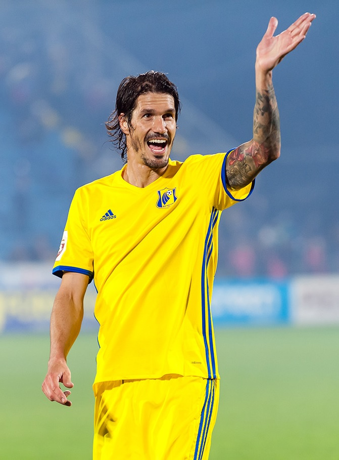 César Navas after the FC Rostov game against FC Amkar Perm.